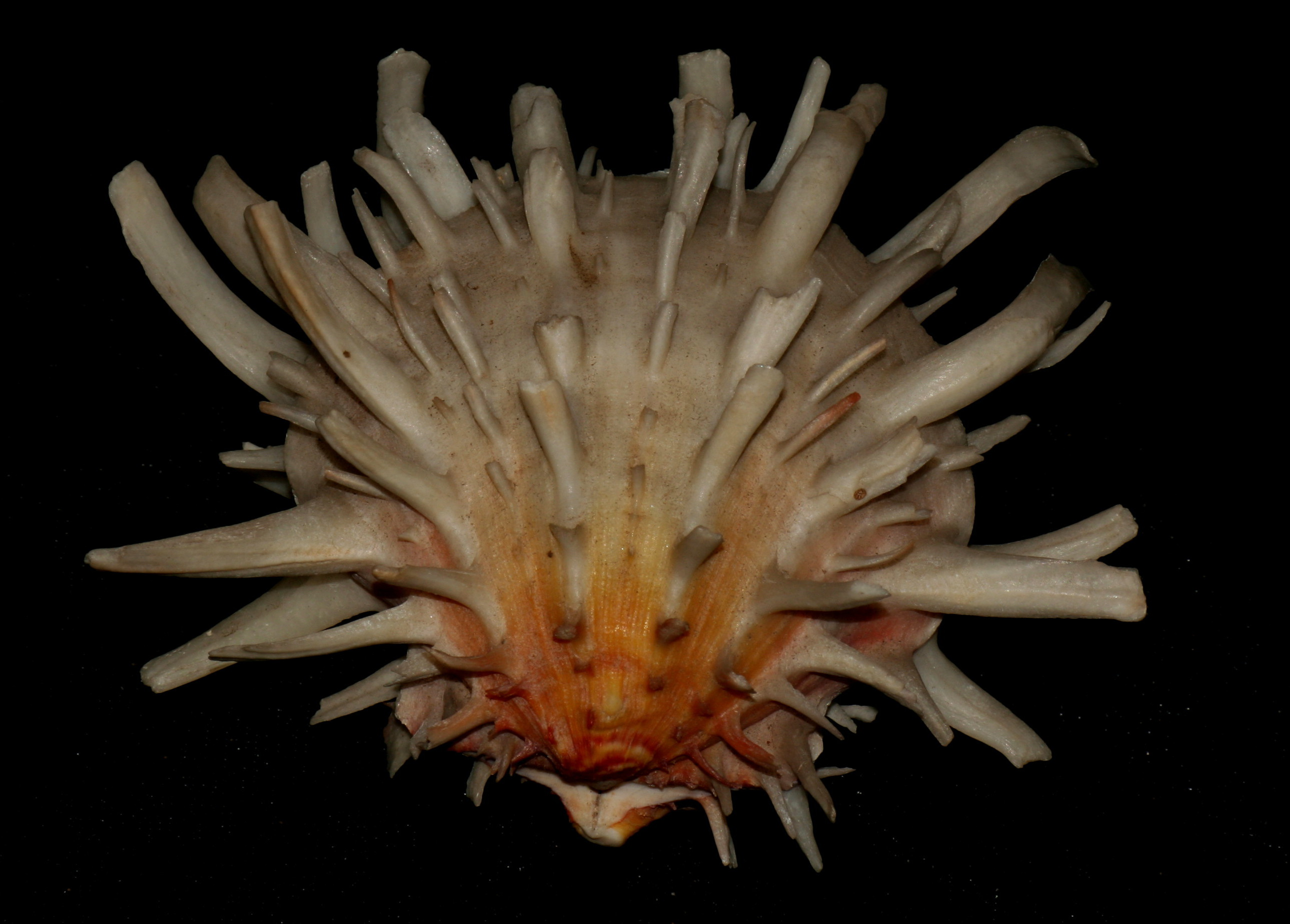 Spondylidae: Spondylus americanus Hermann, 1791